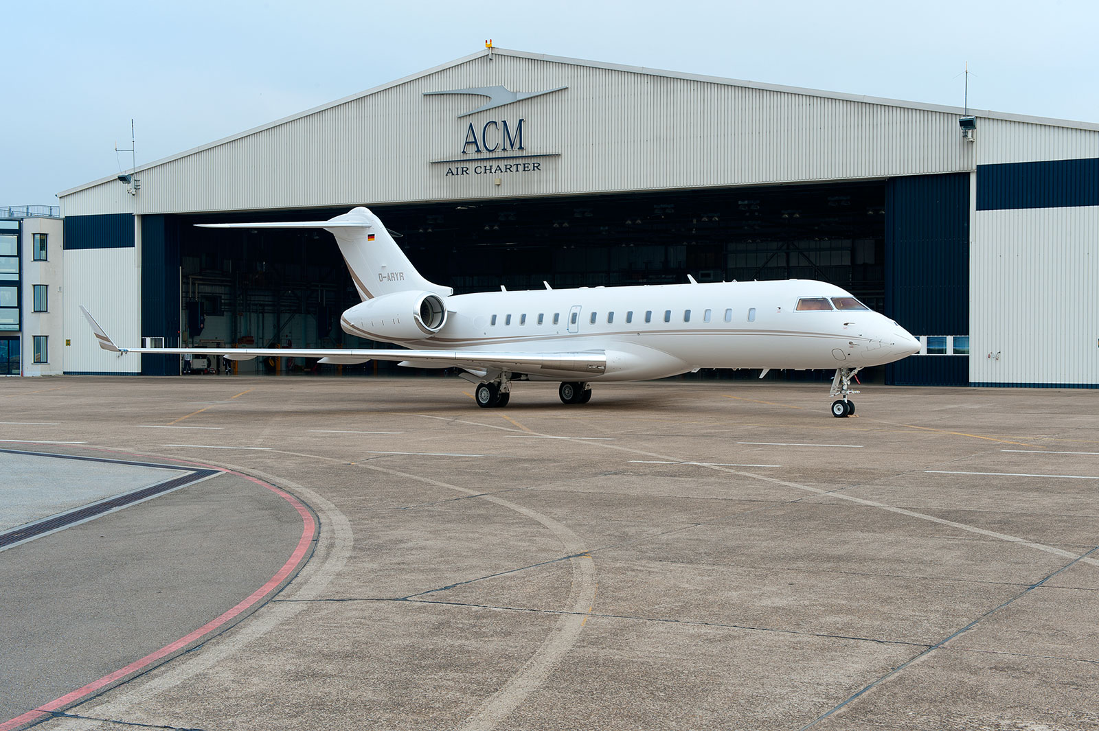 Bombardier Global Express in front of ACM headquarter